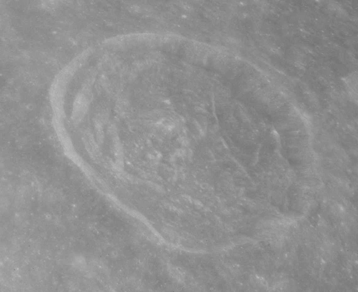 Hansen, on the moon.